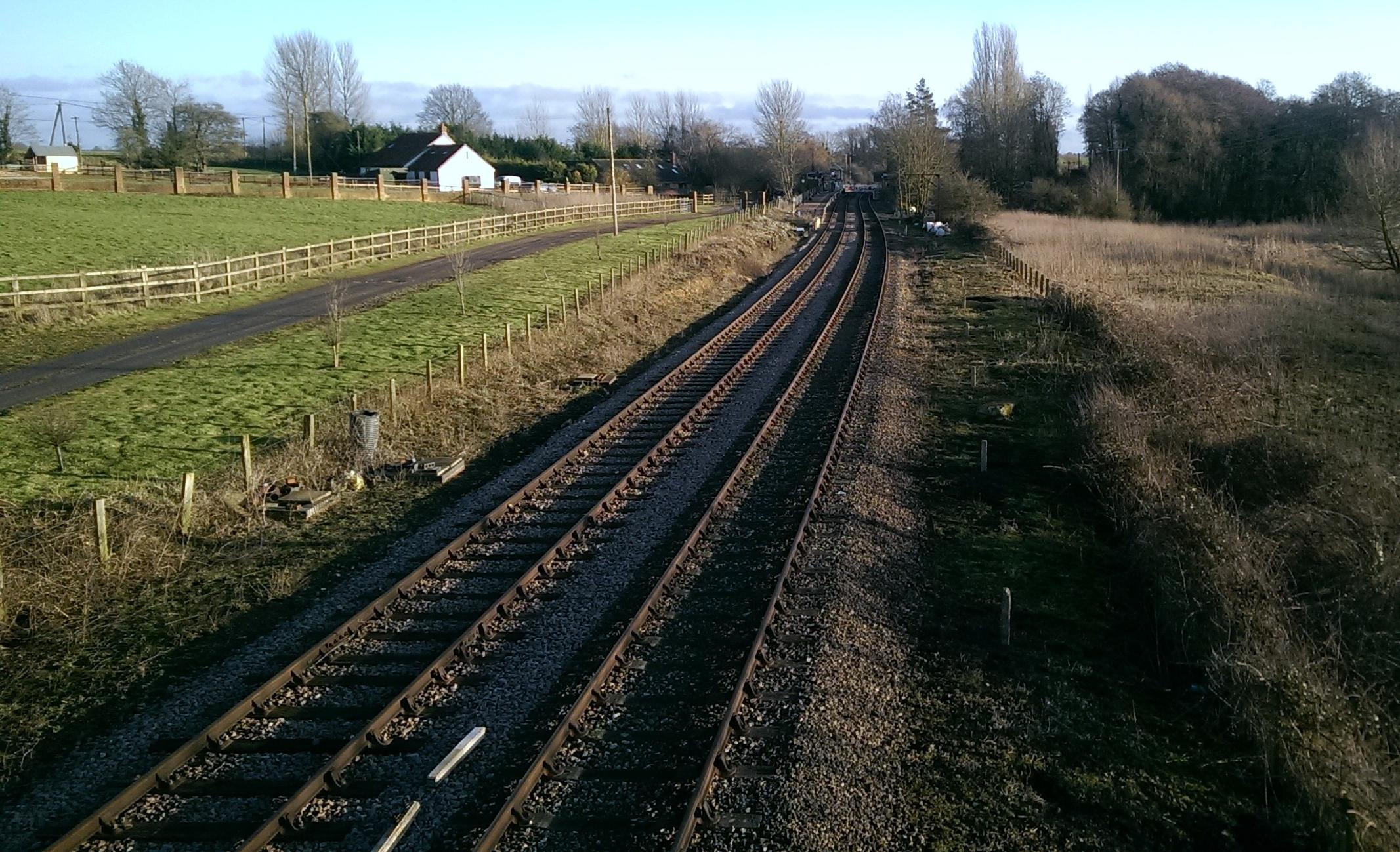 Overhead view of the passing loop at Thuxton, looking towards Wymondham